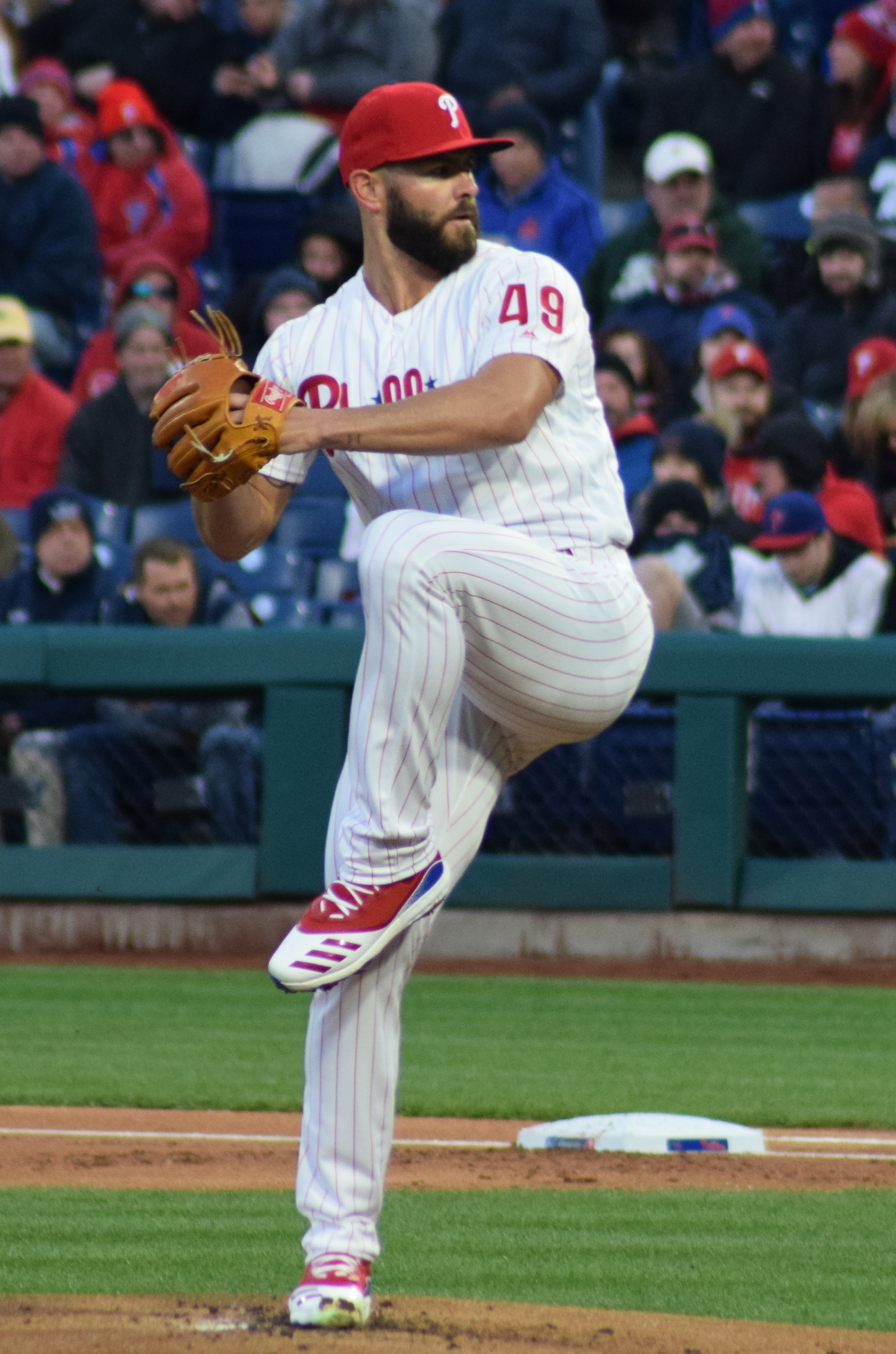 Phillies pitcher jake Arrieta